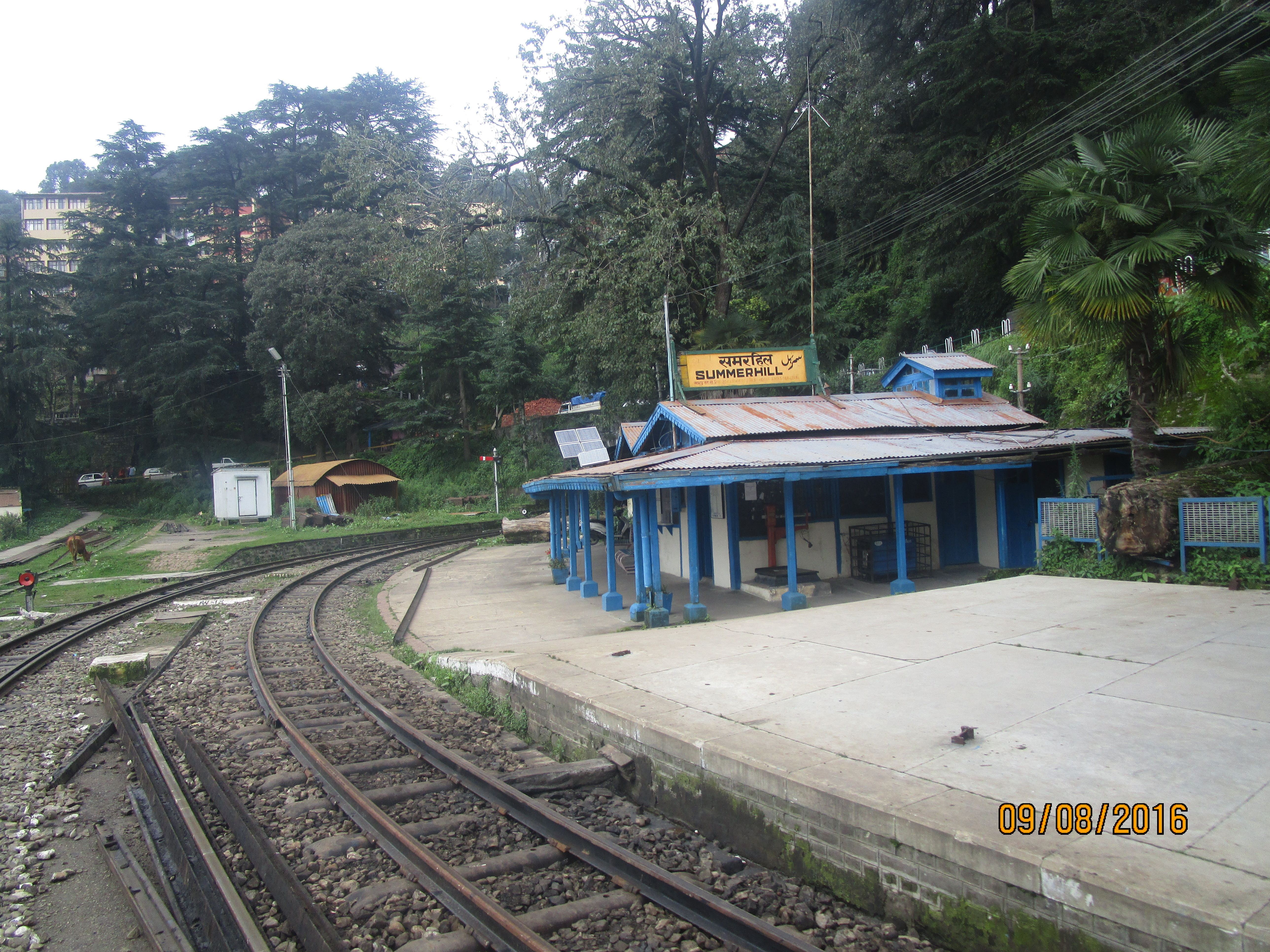 Summer Hill railway station, India